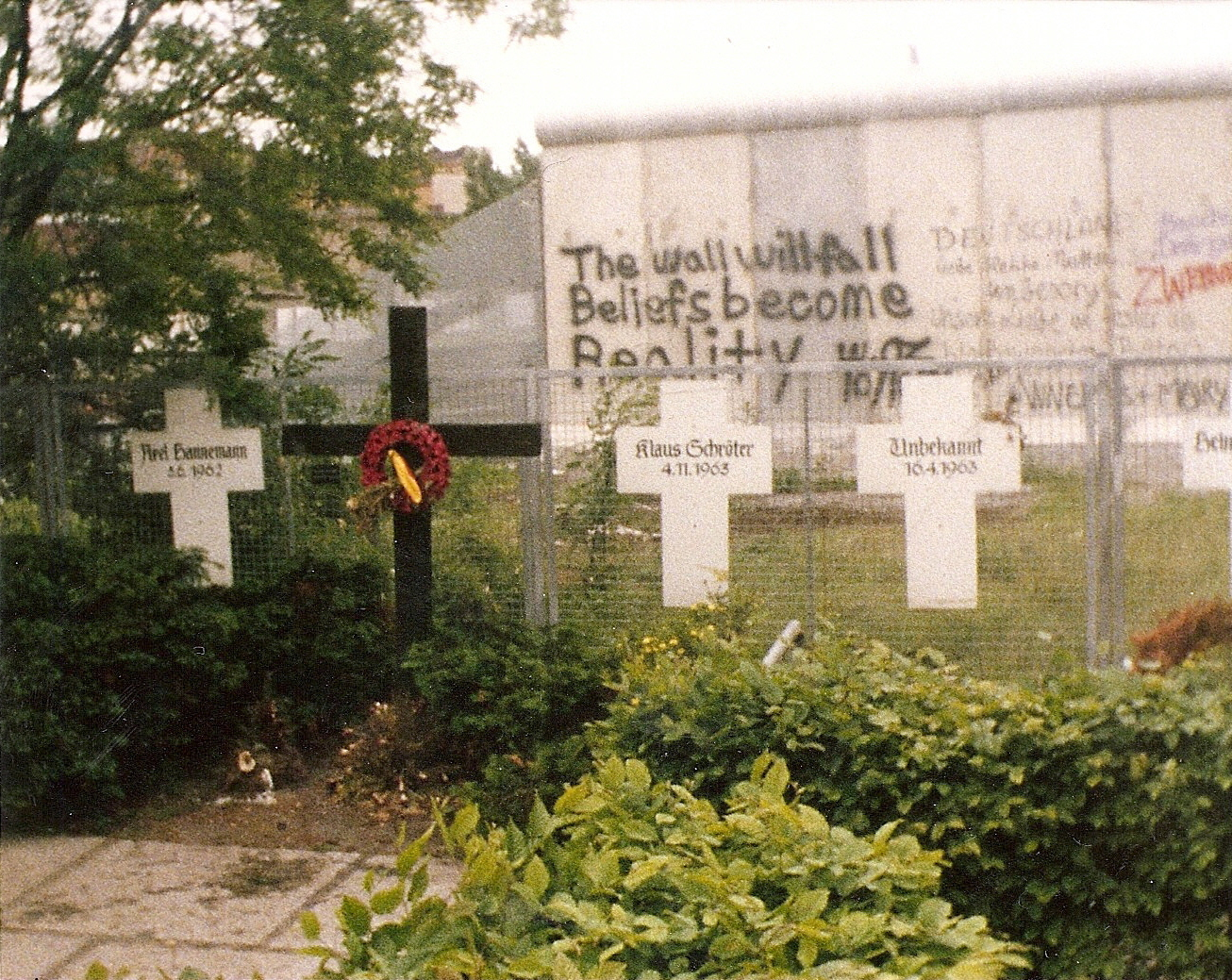 Memorial to the Victims of the Wall, Berlin (Beliefs do become reality).